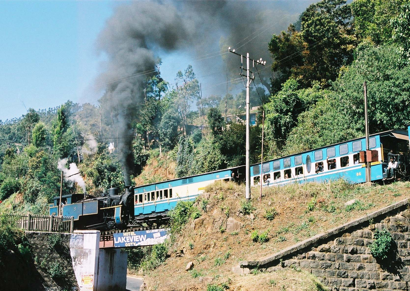 Nilgiri Mountain Railway train climbs past Kateri Road. The locomotive is No.37392. 28th February 2005 AUTHOR : SELVA KUMAR.L - DHARMAPURI Camera - Minolta X700 (35mm film) Modified - Scanned by film developer. File size and definition changed using Adobe Photoshop 5.0LE